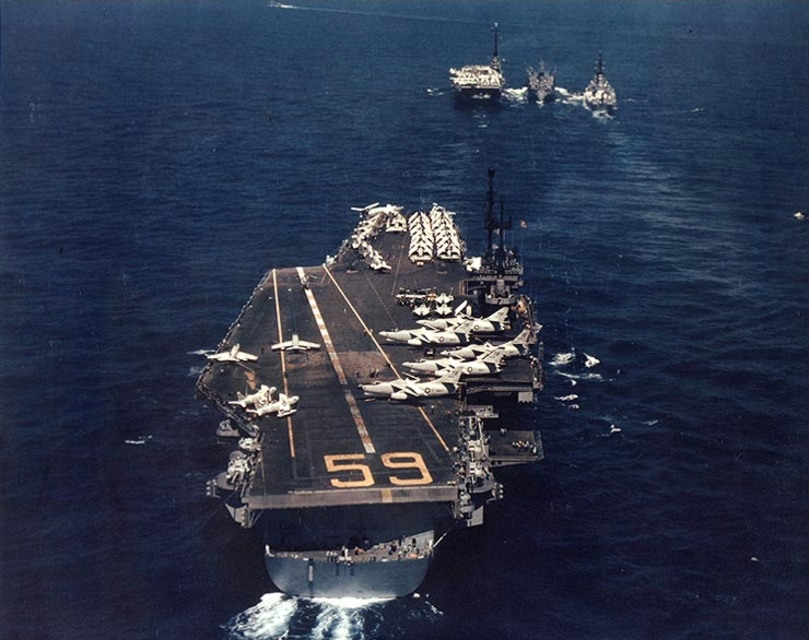 The U.S. Navy aircraft carrier USS Forrestal (CVA-59) awaiting her turn to refuel, while operating in the Mediterranean Sea during the Jordanian crisis, 29 April 1957. USS Caloosahatchee (AO-98) is ahead, with USS Lake Champlain (CVA-39) and USS Salem (CA-139) alongside. Note Forrestal´s eclectic Carrier Air Group 1 (CVG-1), with F3H-2N, FJ-3M, F9F-8B, F2H-2P, A3D-1, and AD-6 aircraft visible on her flight deck.